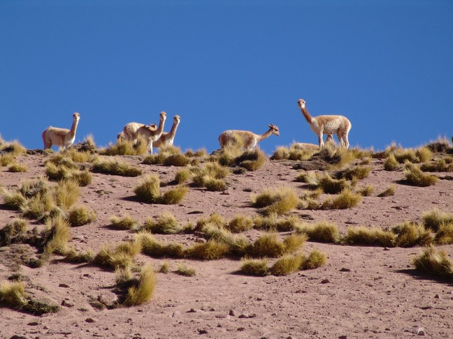 In Atacama Desert